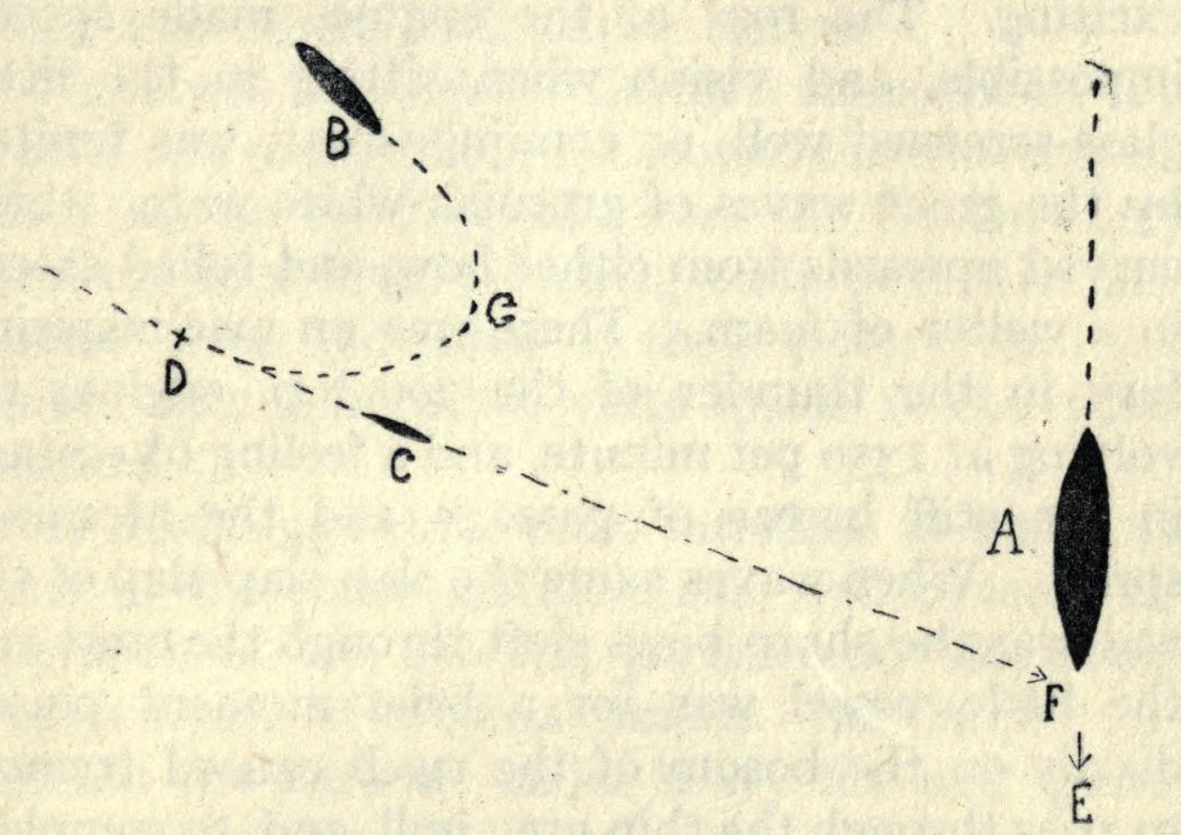 CMB attack diagram